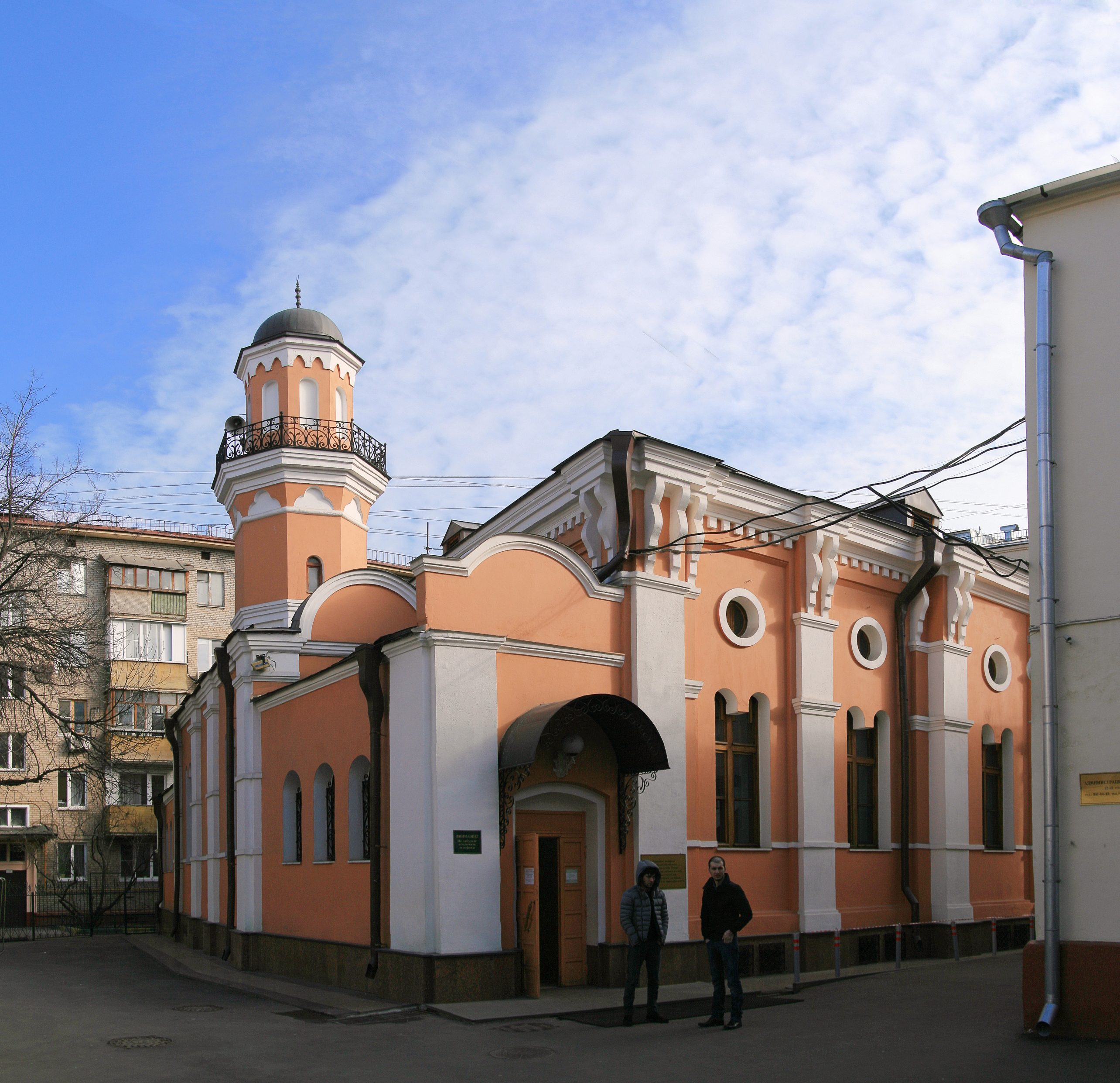 Historical Mosque in Moscow